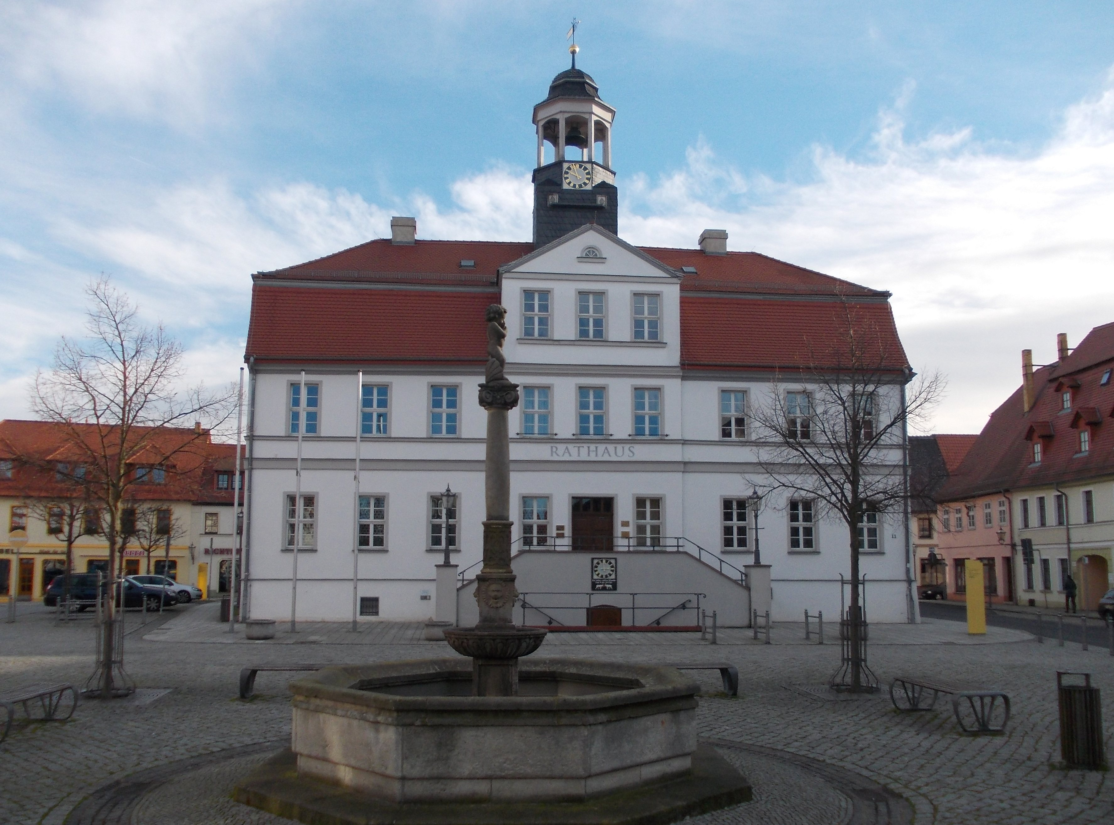 The town hall of Bad Düben (Nordsachsen district, Saxony)